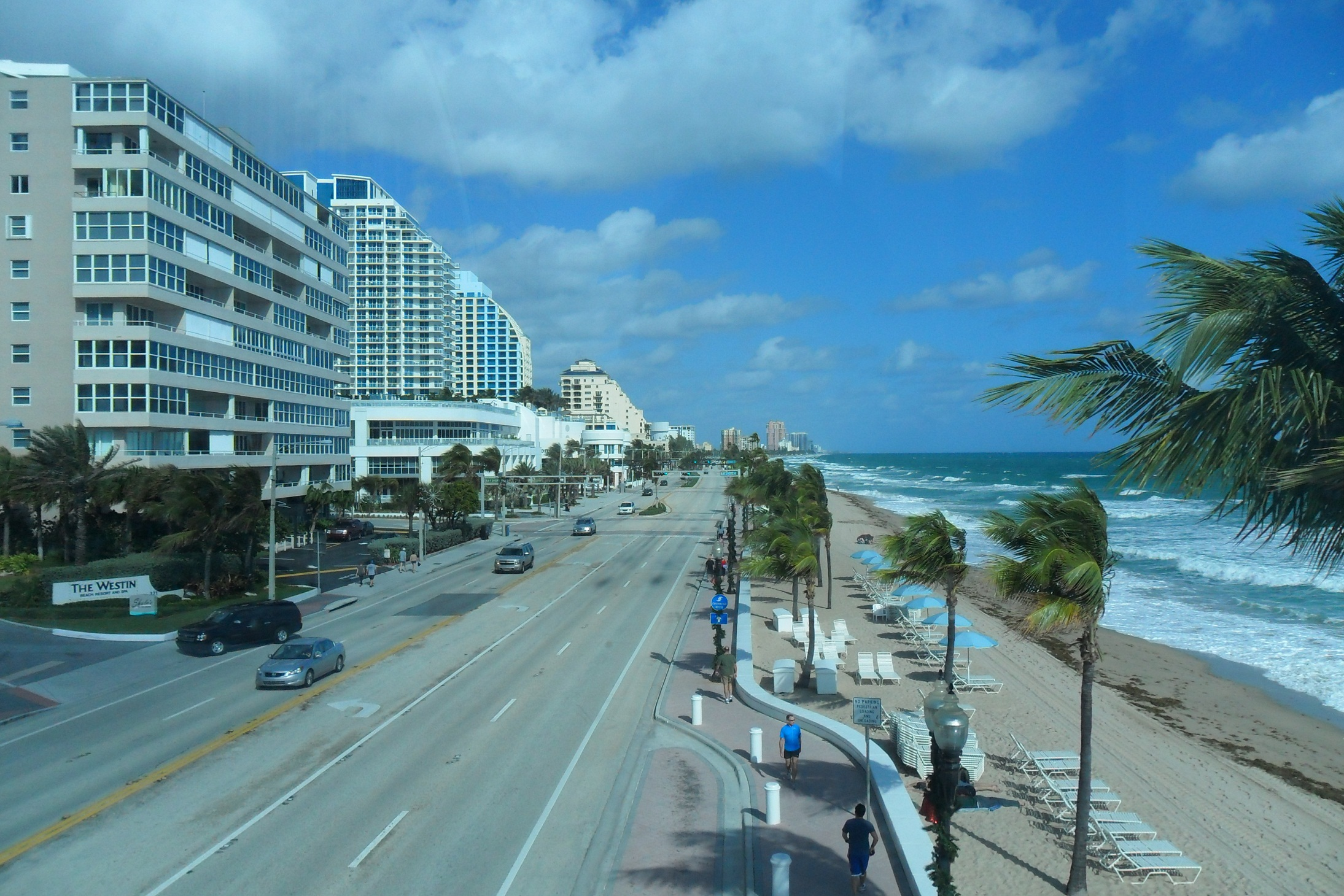 Fort Lauderdale Beach, FL, USA